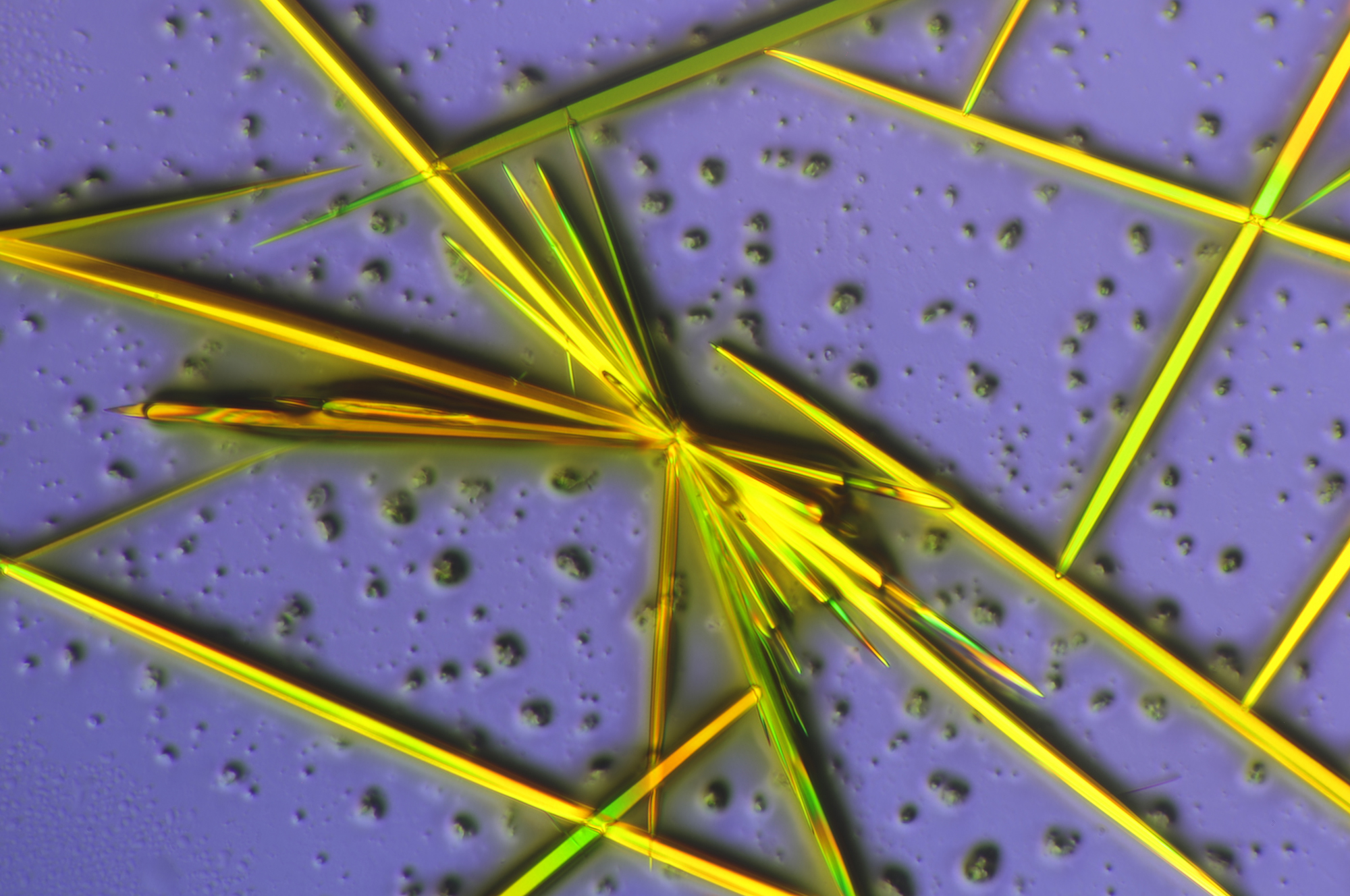 Juglon aus der Fruchtschale, kristallisiert aus Xylol